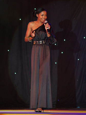 Miss Cayman Islands Nicosia Lawson during the talent show of Miss World 08 in Johannesburg